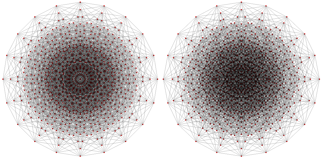 stereo image 10 demencion hipercub